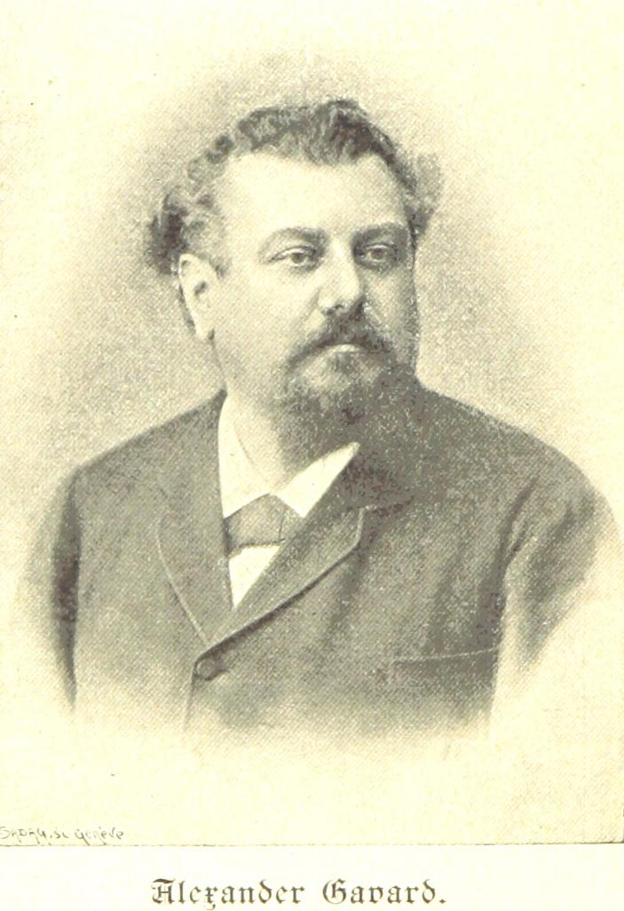 Alexandre Gavard Image taken from: Title: "Die Schweiz im neunzehnten Jahrhundert. Herausgegeben von schweizerischen Schriftstellern unter Leitung von P. Seippel" Author: SEIPPEL, Paul. Shelfmark: "British Library HMNTS 9305.h.2." Volume: 02 Page: 56 Place of Publishing: Lausanne Date of Publishing: 1899 Issuance: monographic Identifier: 003330970 Explore: Find this item in the British Library catalogue, 'Explore'. Download the PDF for this book (volume: 02) Image found on book scan 56 (NB not necessarily a page number) Download the OCR-derived text for this volume: (plain text) or (json) Click here to see all the illustrations in this book and click here to browse other illustrations published in books in the same year.